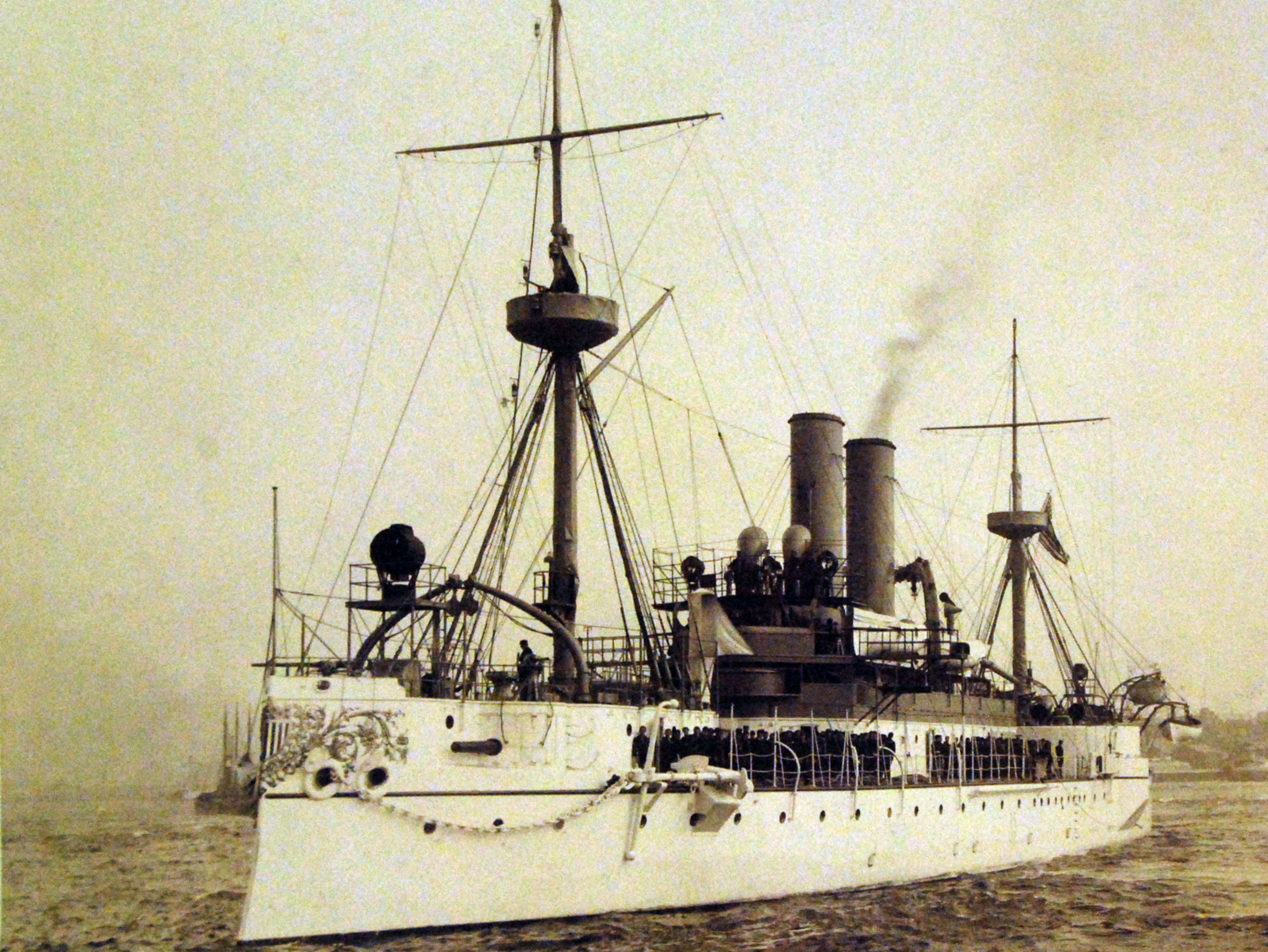 Lot 3000-N-4: USS Maine (ACR-1) port bow view. Published by Detroit Publishing Company, between 1896-1912. Courtesy of the Library of Congress. (2016/03/31).